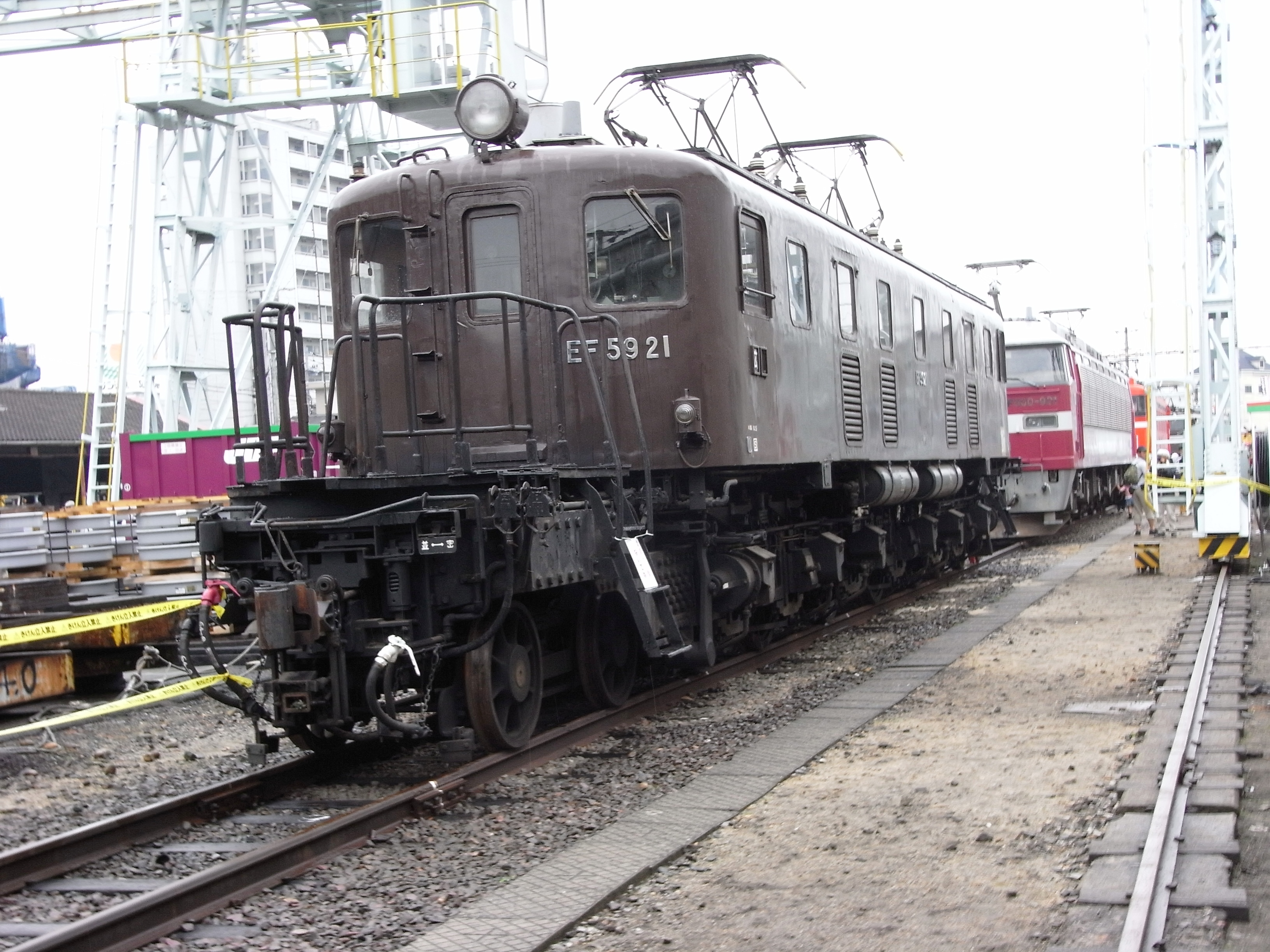 JNR class EF59 electric locomotive displayed at Hiroshima Works open day